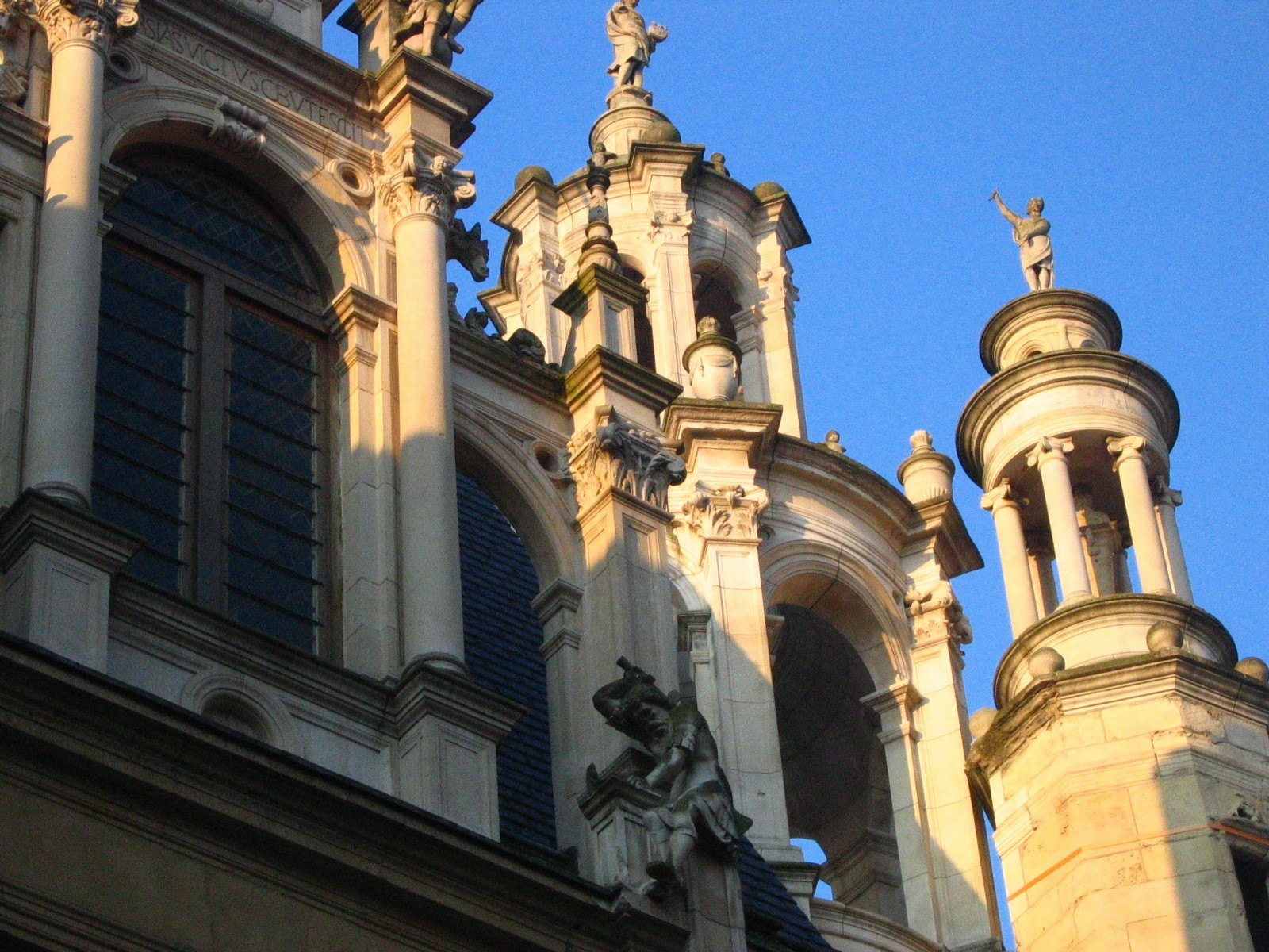 Courtyard of the Hôtel d'Escoville, in Caen.